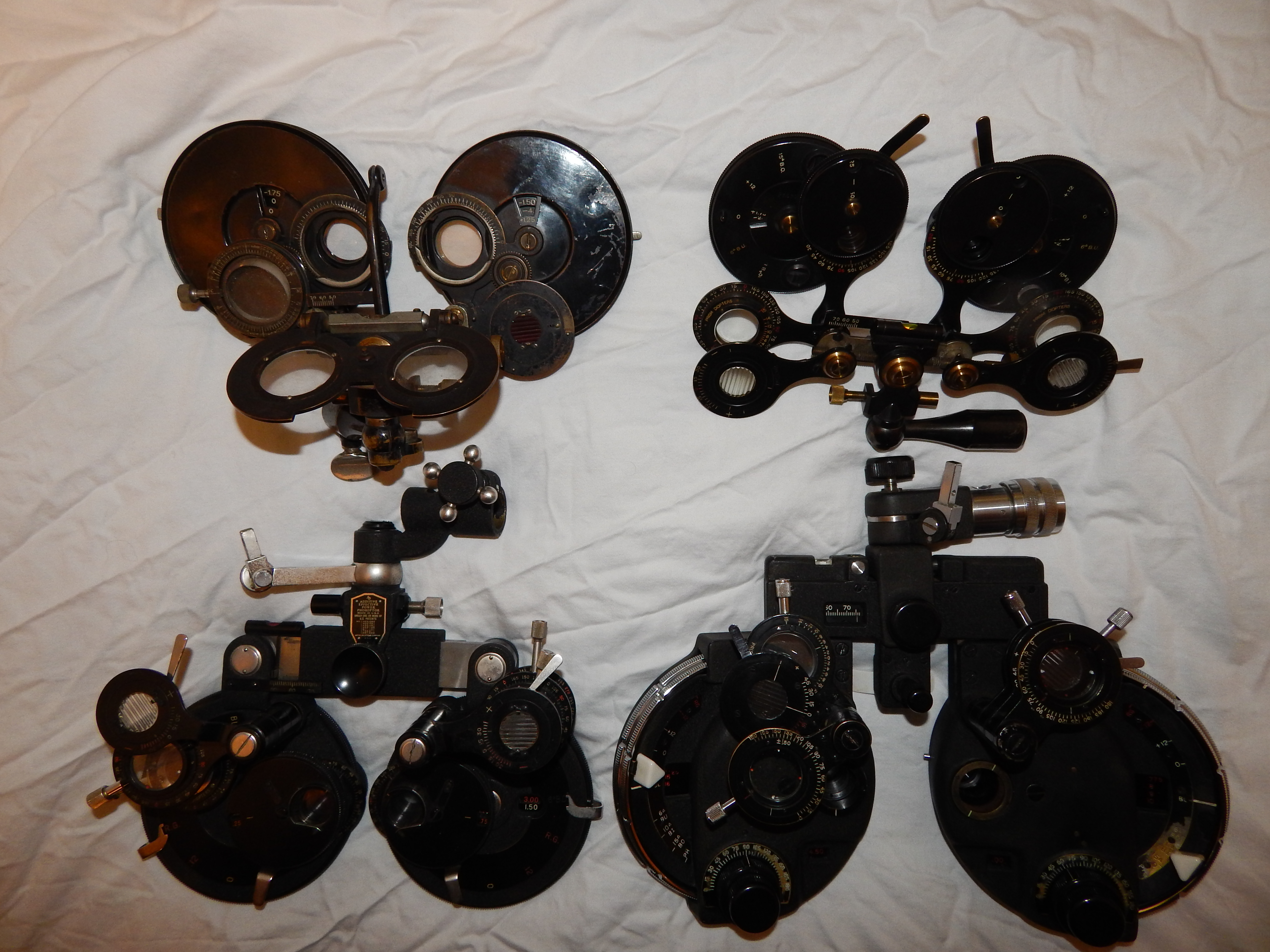 The early DeZeng/American Optical lineage. Top left, the Phoro-Optometer, 1917; top right, the Phoroptor, 1922, bottom left, the Additive Power Phoroptor, 1934; and the 590, 1948.